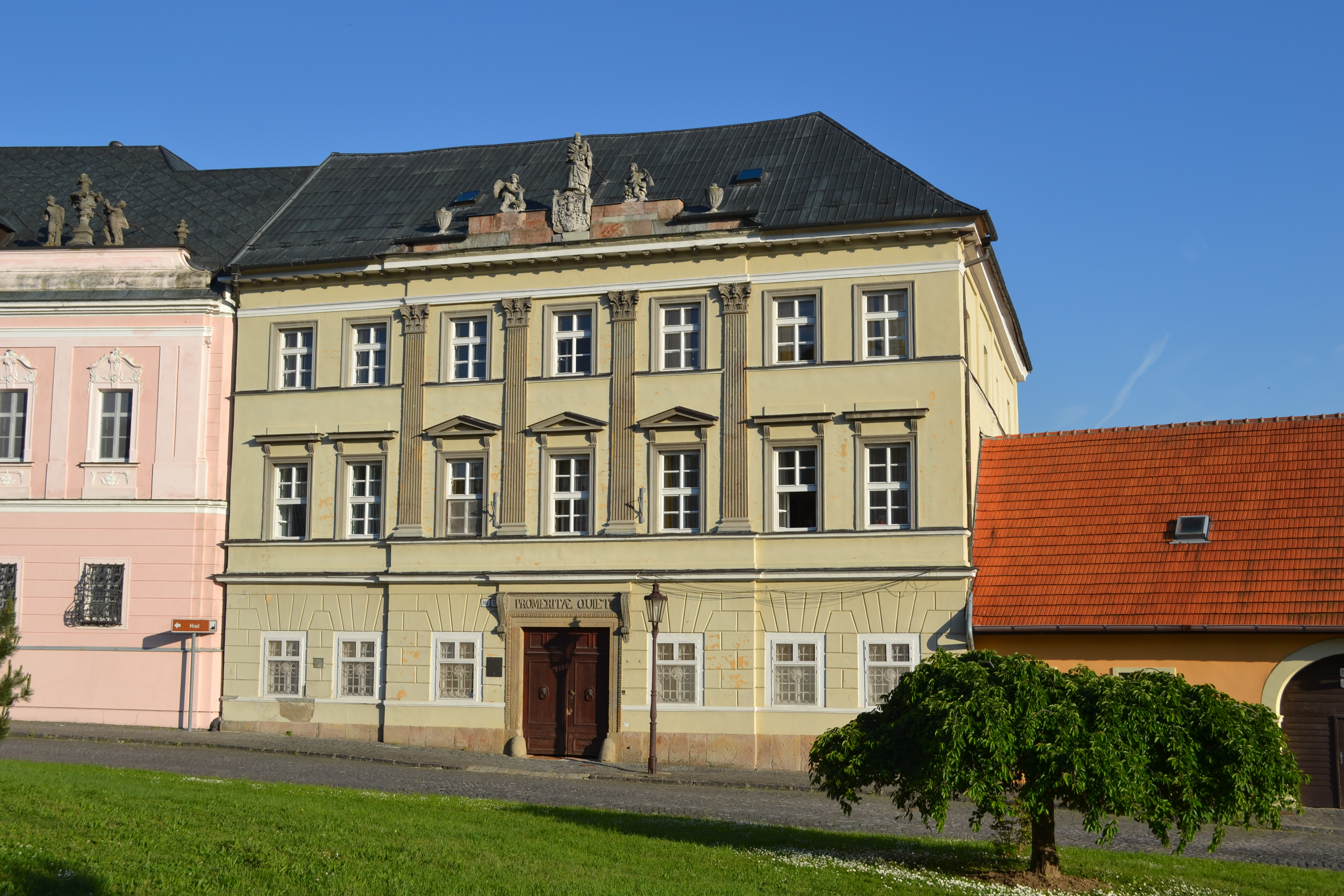 Memorial building, Samo street 12Slovenčina: Pamätná budova, Samova ulica 12